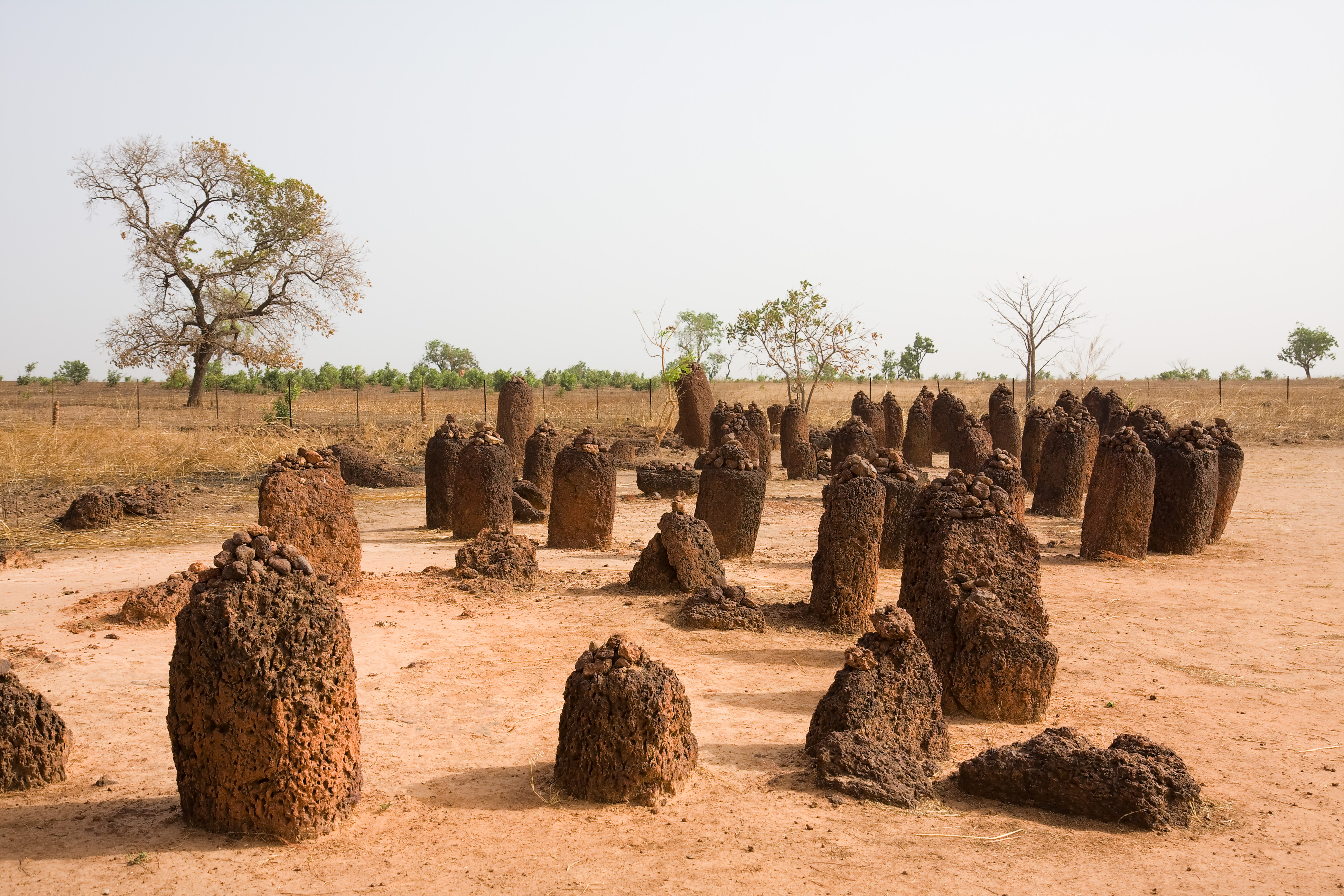 A stone circle in Wassu/The Gambia